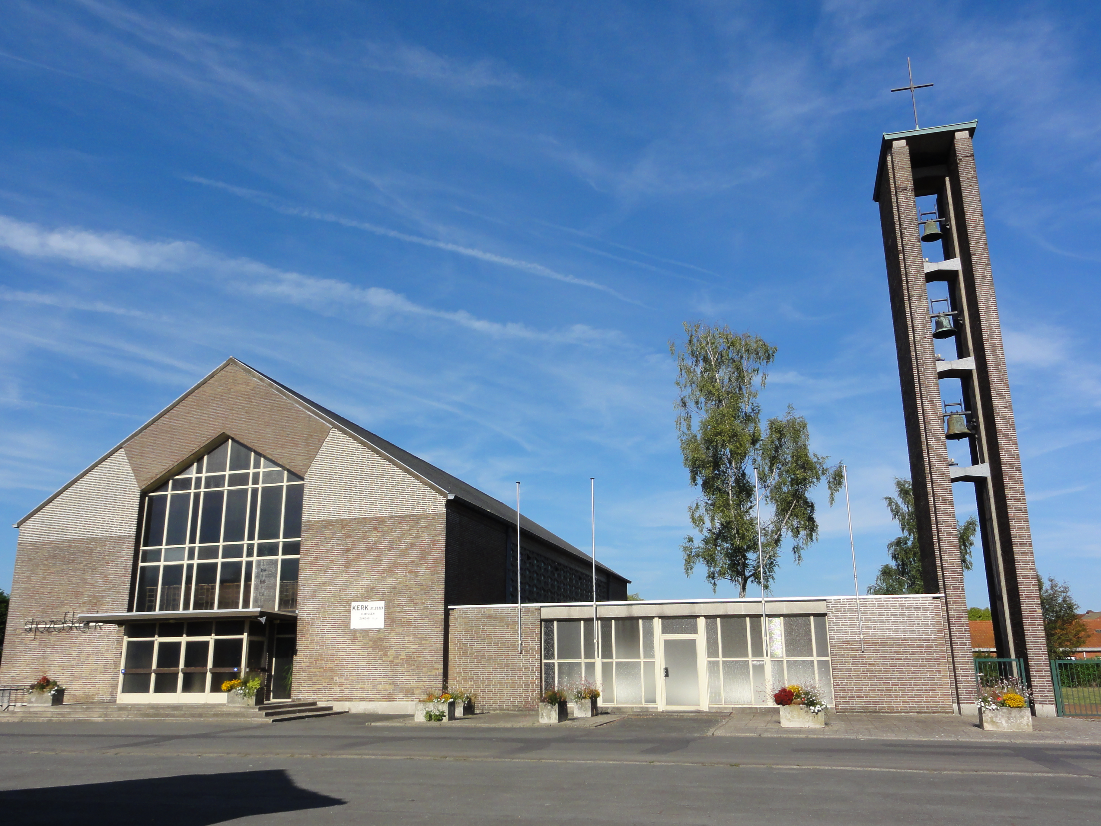 Sint-Jozef Arbeiderkerk (Church of Saint Joseph Worker) in the quarter Keur in Dendermonde. Dendermonde, East Flanders, Belgium.